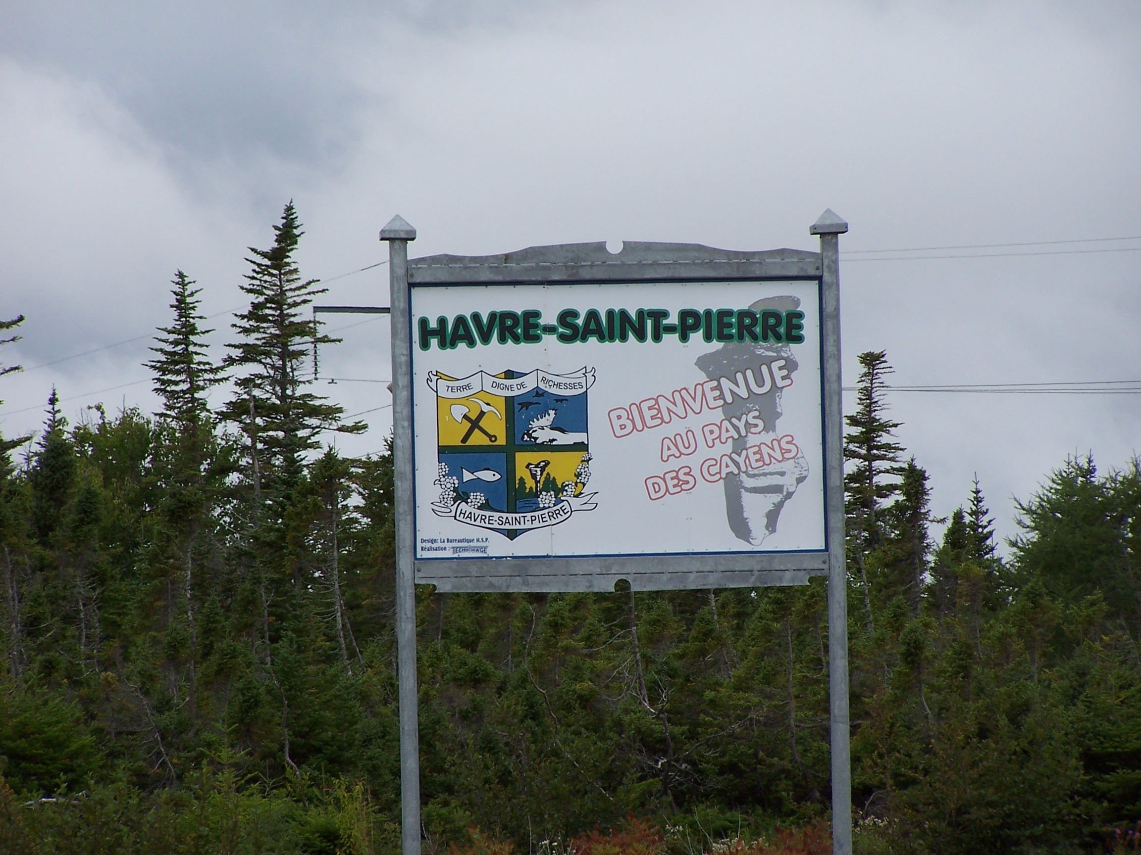 Welcome road sign at the entrance of Havre-Saint-Pierre, Quebec (Canada)